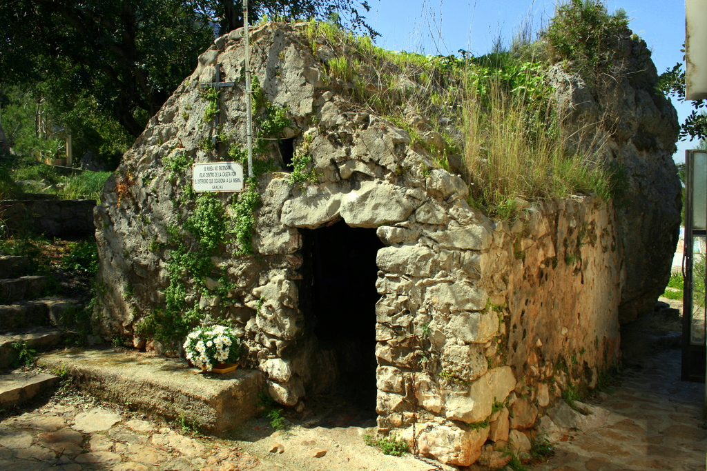 Stone house used by Father Pere in Denia (Alicante), Spain.